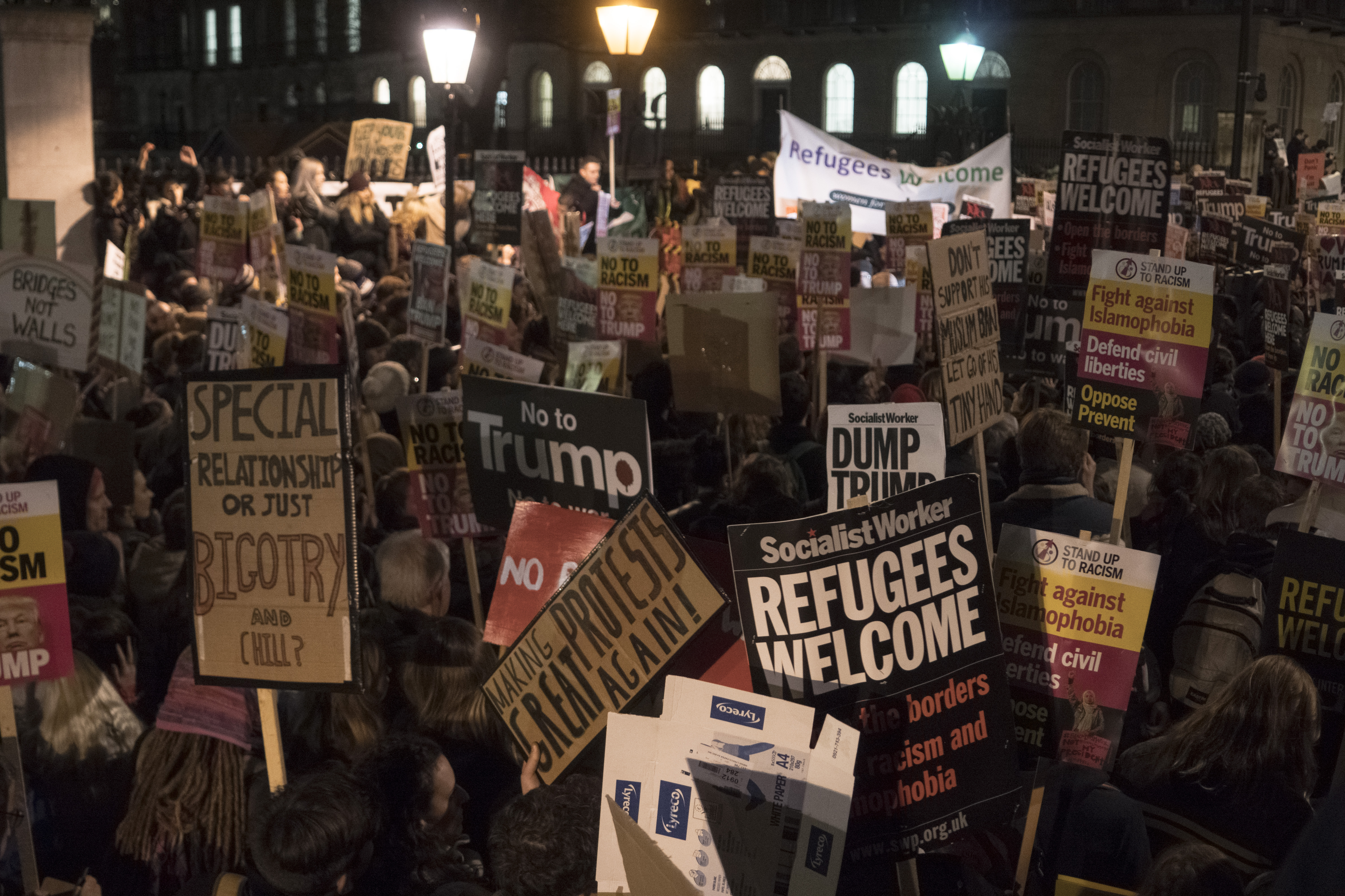 Demonstrators at a protest against Trump's Muslim ban in Whitehall, London.